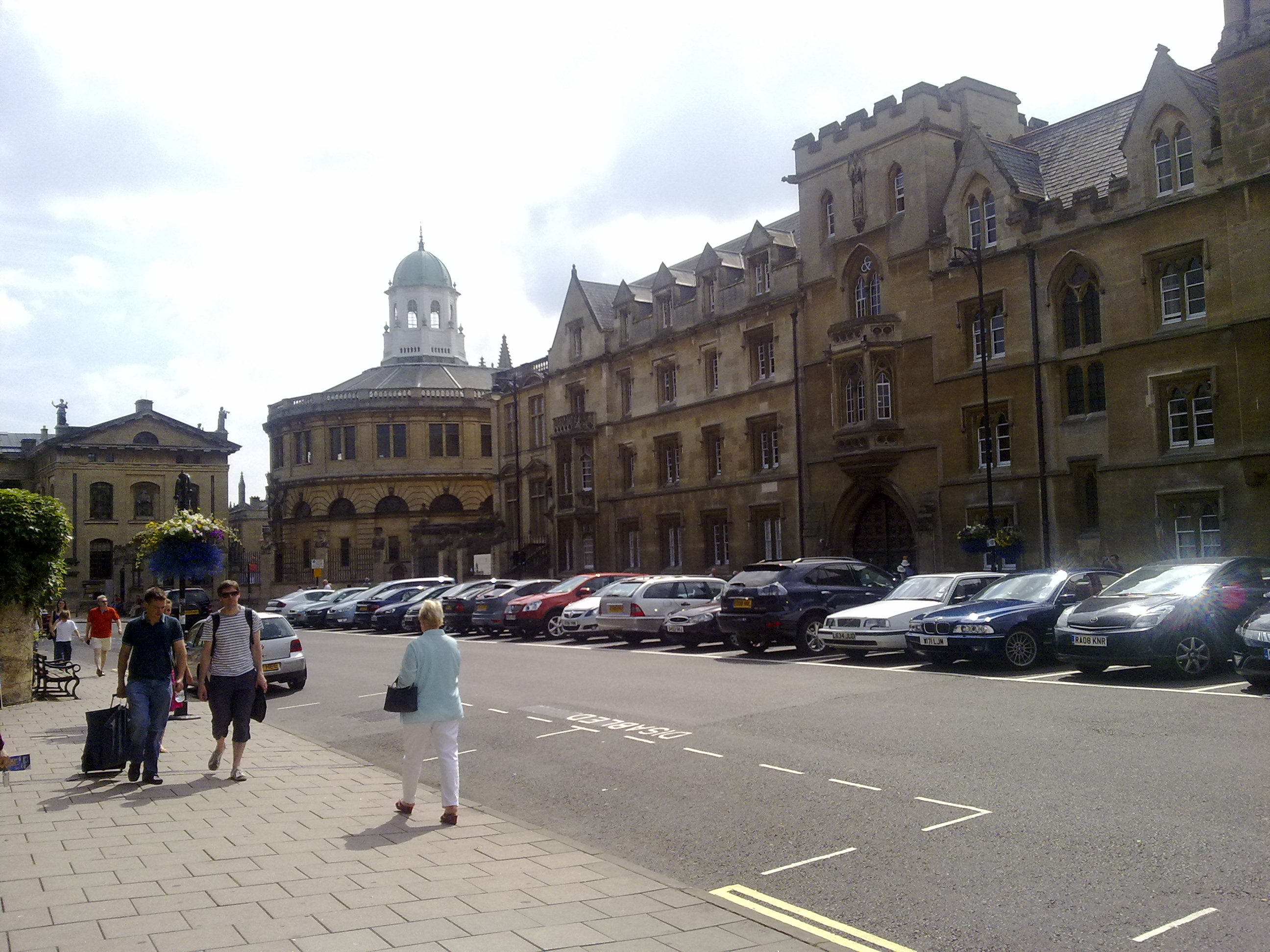 Exeter College, Oxford, as viewed from in front of Trinity College, Broad Street.